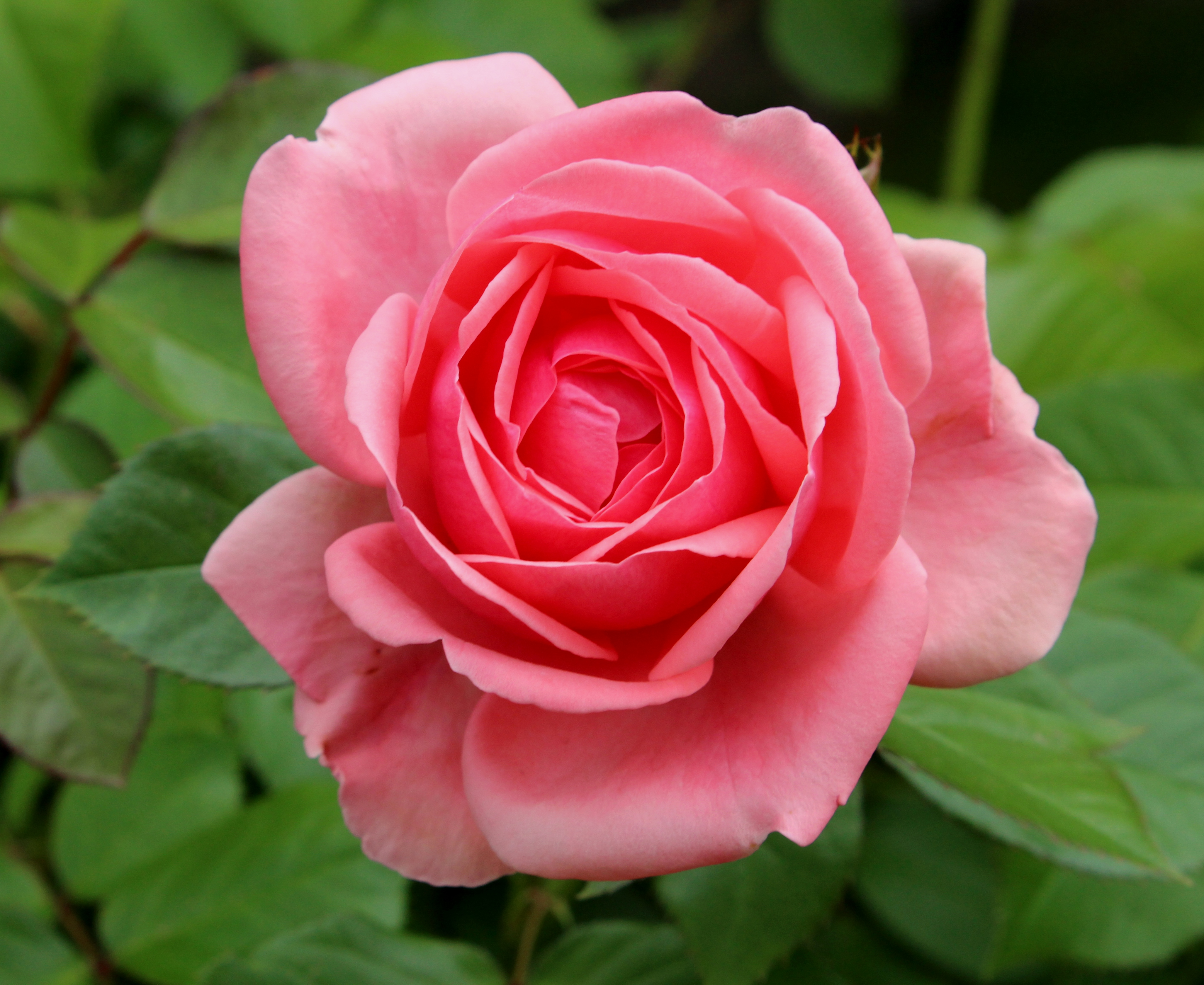 Rosa 'Johann Strauss' in the Volksgarten in Vienna, Austria. Identified by sign.